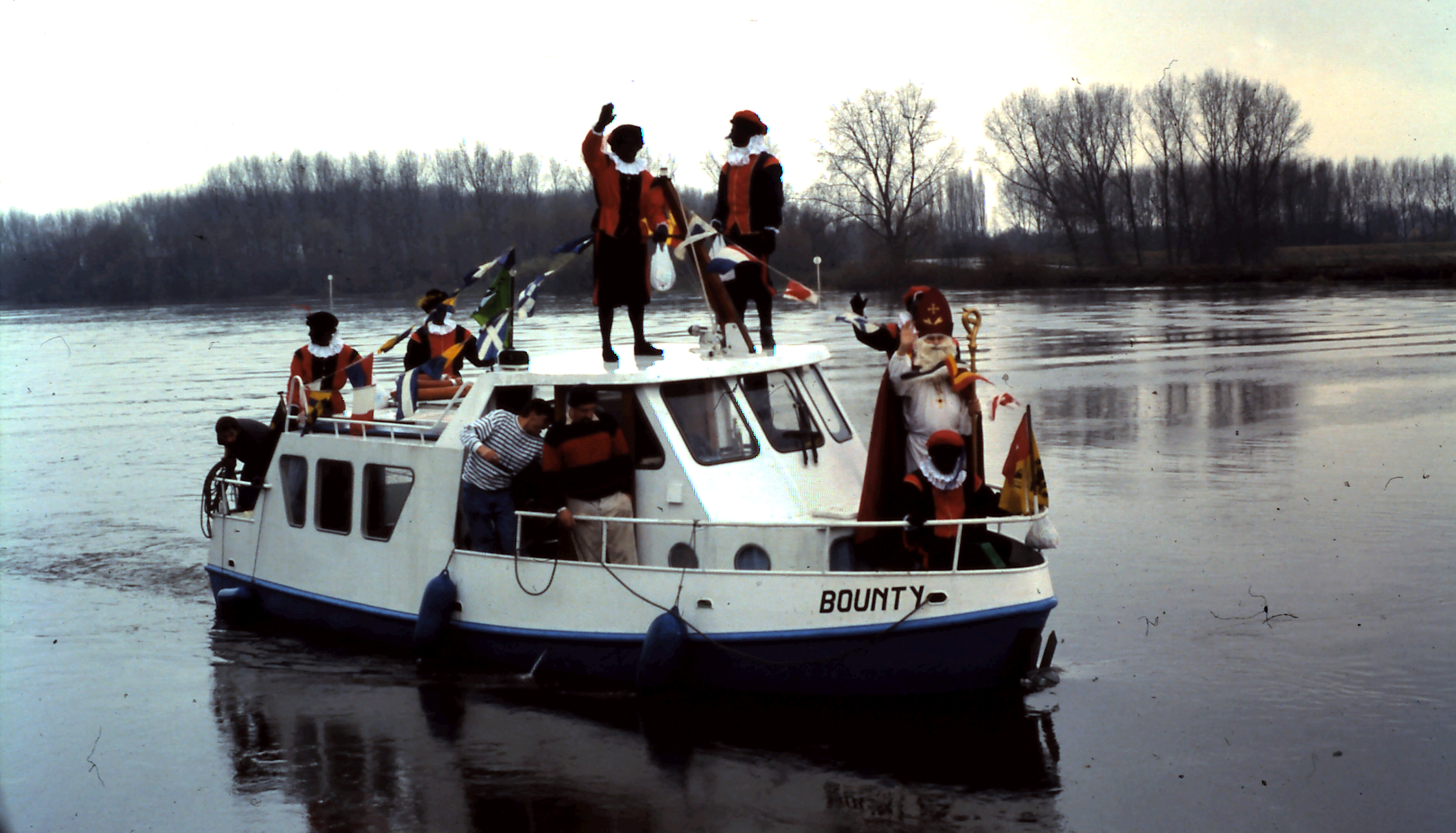 Arrival of Saint Nicholas and his Black Peters at Rumst. Digitized slide.